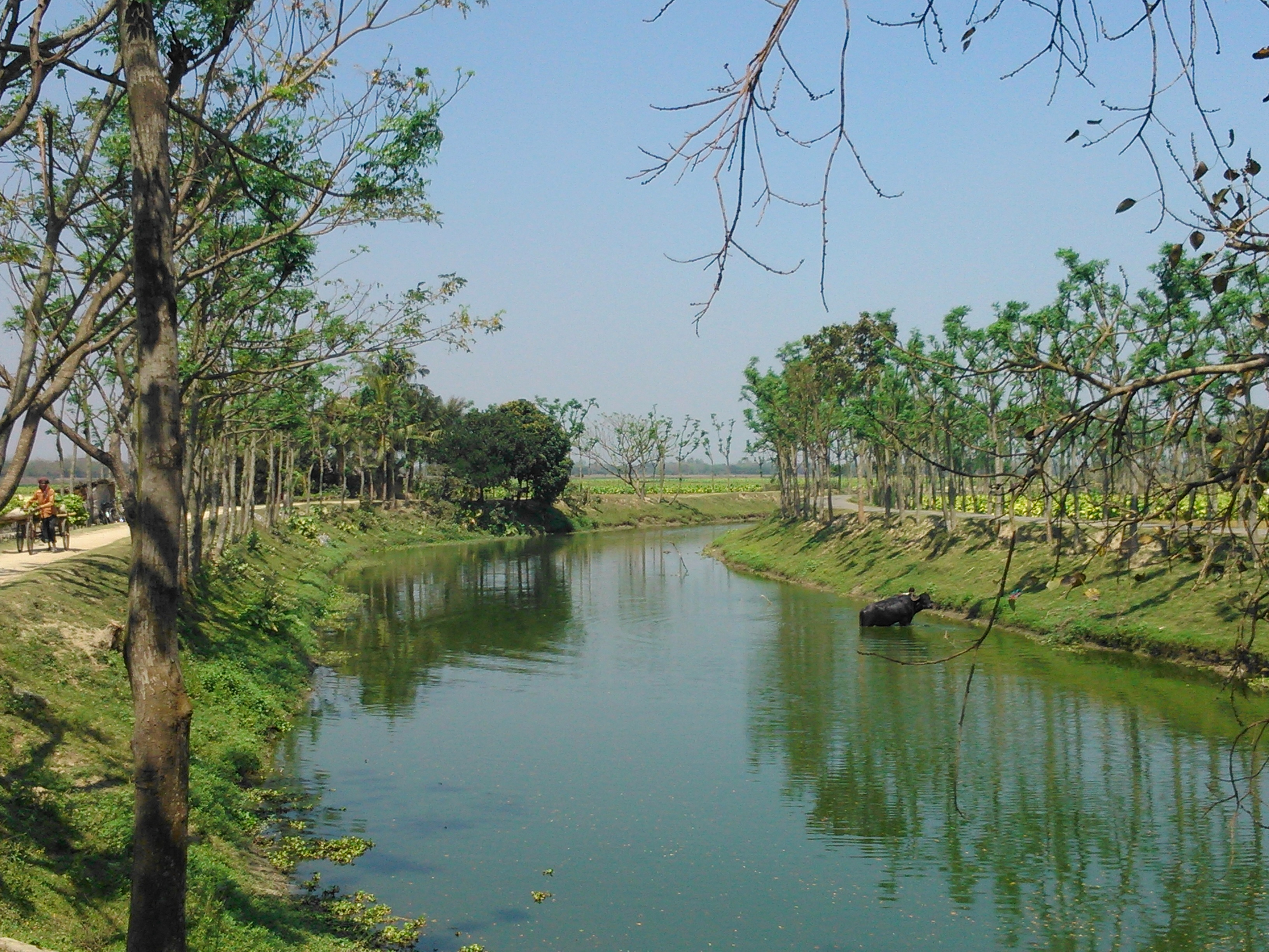 Rural Beauty of Bangladesh.